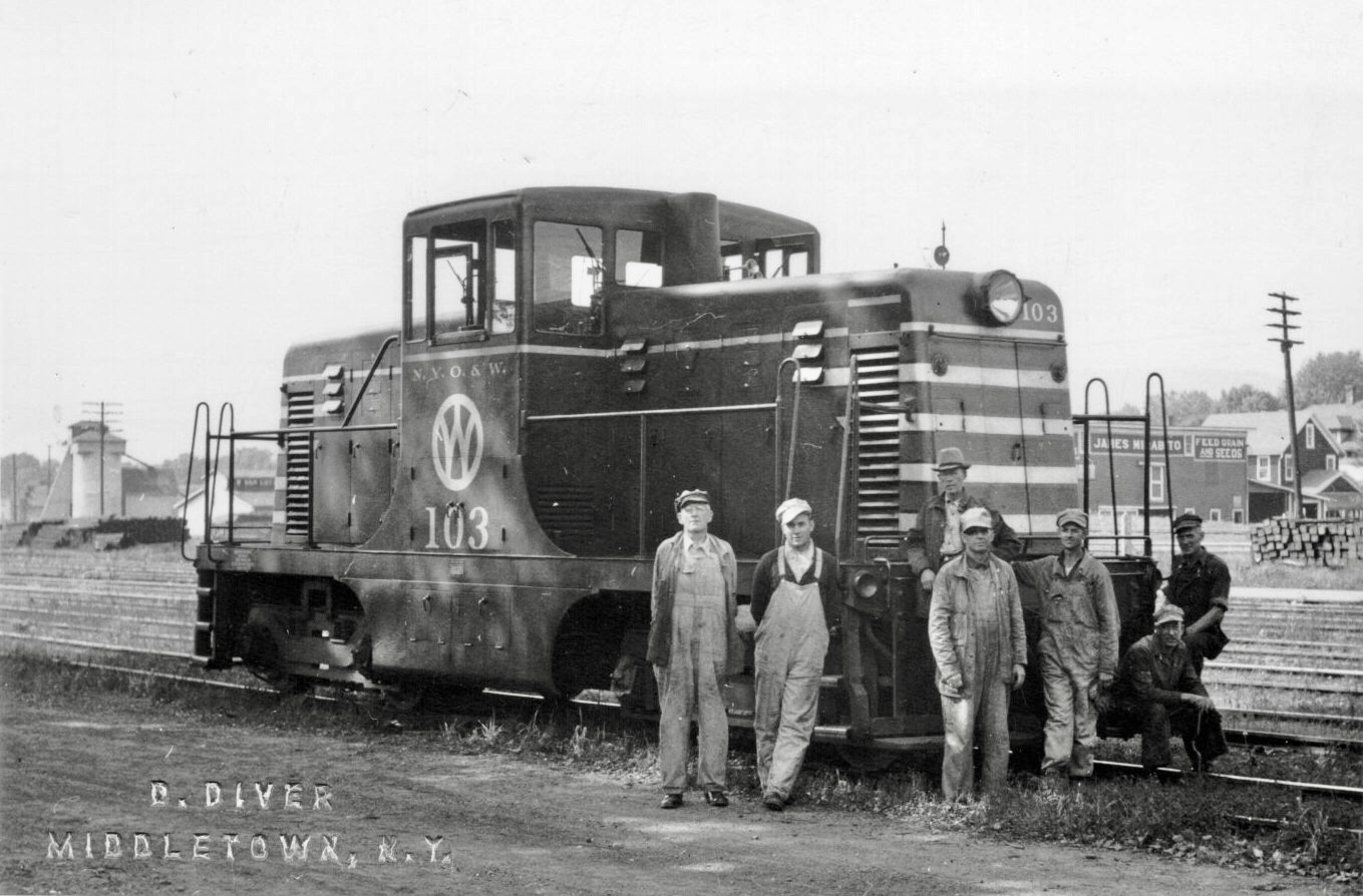 Collection: De Forest Douglas Diver Railroad Photographs, ca. 1870 - 1948, Cornell University Library Title: O&W Diesel #103 Creator: De Forest Douglas Diver Place: New York (State) Medium: Gelatin silver print Notes: Inscription, "Photograph by Diver, Middletown, NY" Provenance: Diver, De Forest Douglas, 1878-1958, Collector Finding Aid: Location: 1948/Box 5/folder 234 RMC ID: RMC2004_1234 Persistent URI: There are no known U.S. copyright restrictions on this image. The digital file is owned by the Cornell University Library which is making it freely available with the request that, when possible, the Library be credited as its source. We had some help with the geocoding from Web Services by Yahoo!